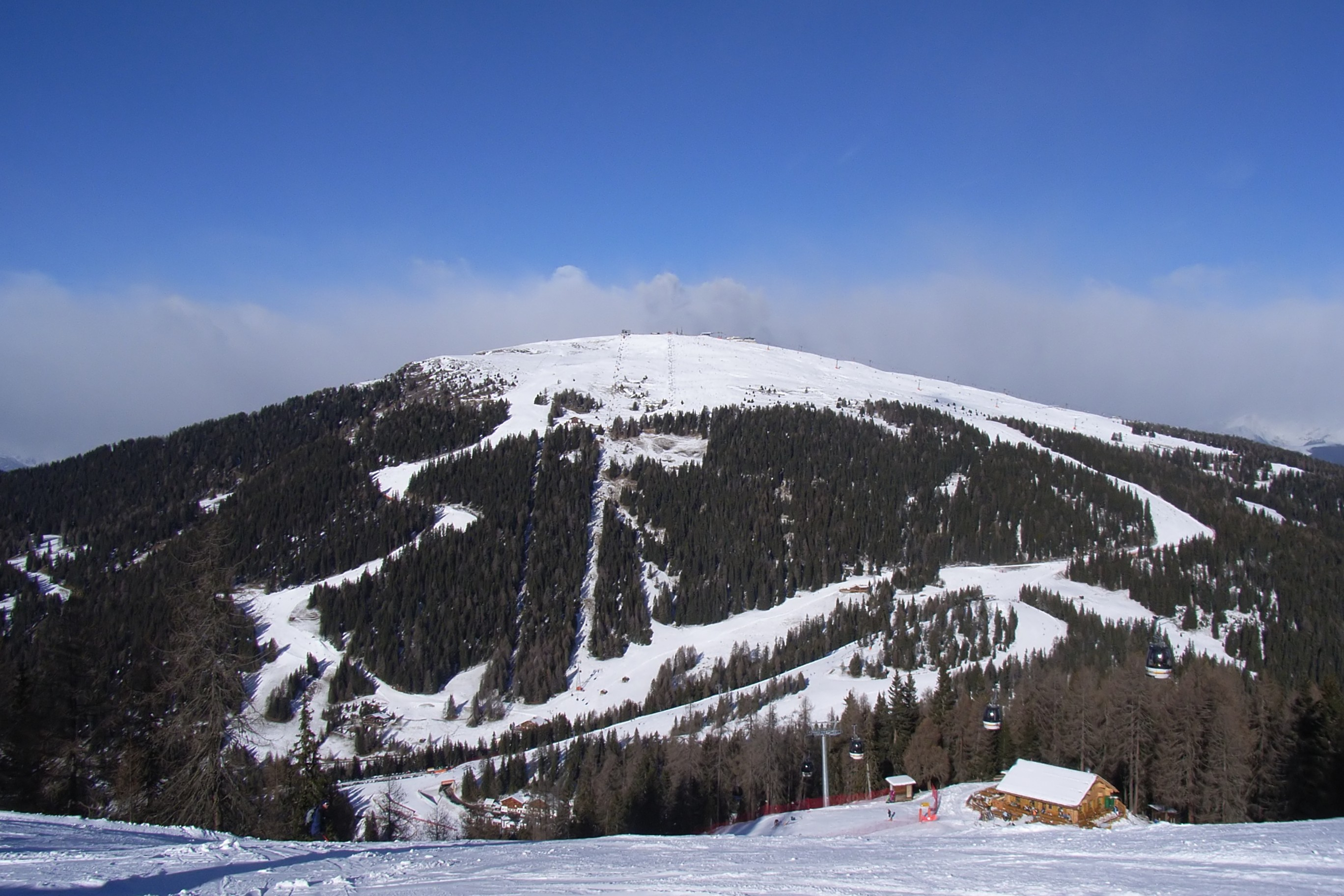 South Tyrol, Italy: South view of the Kronplatz (German) or Plan de Corones (Italian).